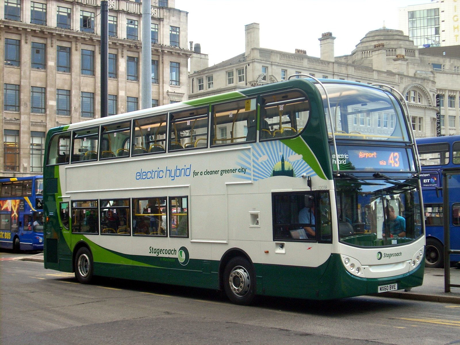 At the Piccadilly Gardens terminus, a new Alexander Dennis Enviro400H electric hybrid double deck bus, registration mark MV60 BVE, fleet number 12038, on its first day in service with Stagecoach in Manchester.